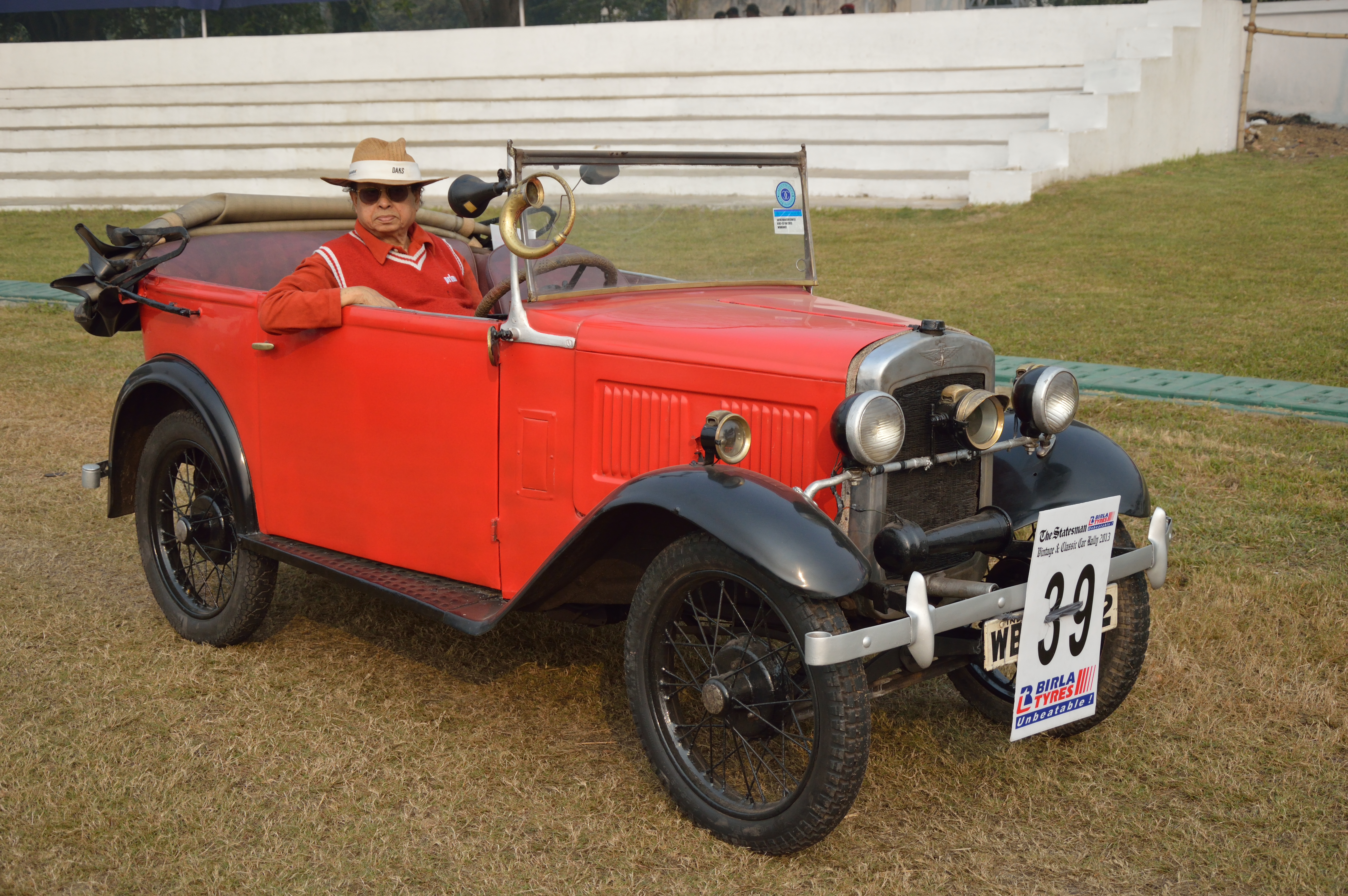 This Austin car was exhibited and ran during ‘The Statesman Vintage & Classic Car Rally 2013’ from the Eastern Command Sports Stadium of Fort William, Kolkata to the same via: Rabindra Sadan, Esplanade, Central avenue, Bhupen Bose avenue, Shaymbazaar five points crossing, APC Roy road, AGC Bose road Park Circus seven points, Gariahat flyover, Gol park, Rabindra Sarover, SP Mukherjee road, Hazra Road, Alipore road and Strand road, the route covers 31.32 km. The rally was held at chilled morning on 13 January 2013 at the ECS Stadium, where 170 entrants were participated with cars and bikes manufactured from 1906 to 1978. This one day festival takes place on the second Sunday of every January in Kolkata since 1968 with full of period costume and cultural period pieces.